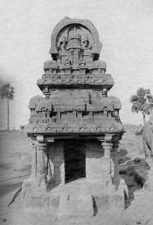 Nakula and Sahadeva's rathas, part of the Seven Pagodas complex. Coombes, J.W. (Josiah Waters). The Seven Pagodas. London, UK: Selley, Service & Co., Ltd., 1914.